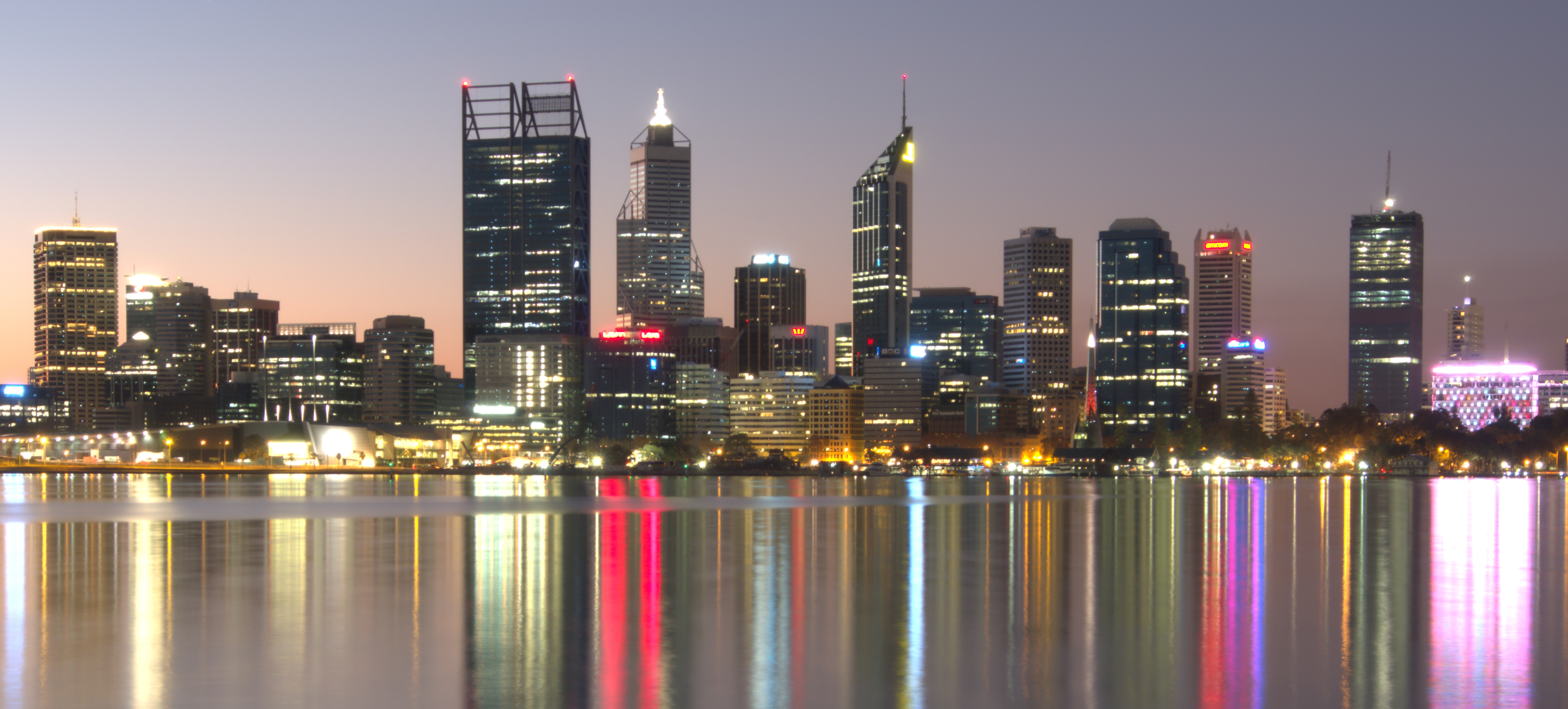 Photograph of the Perth city skyline on 31 May 2015.